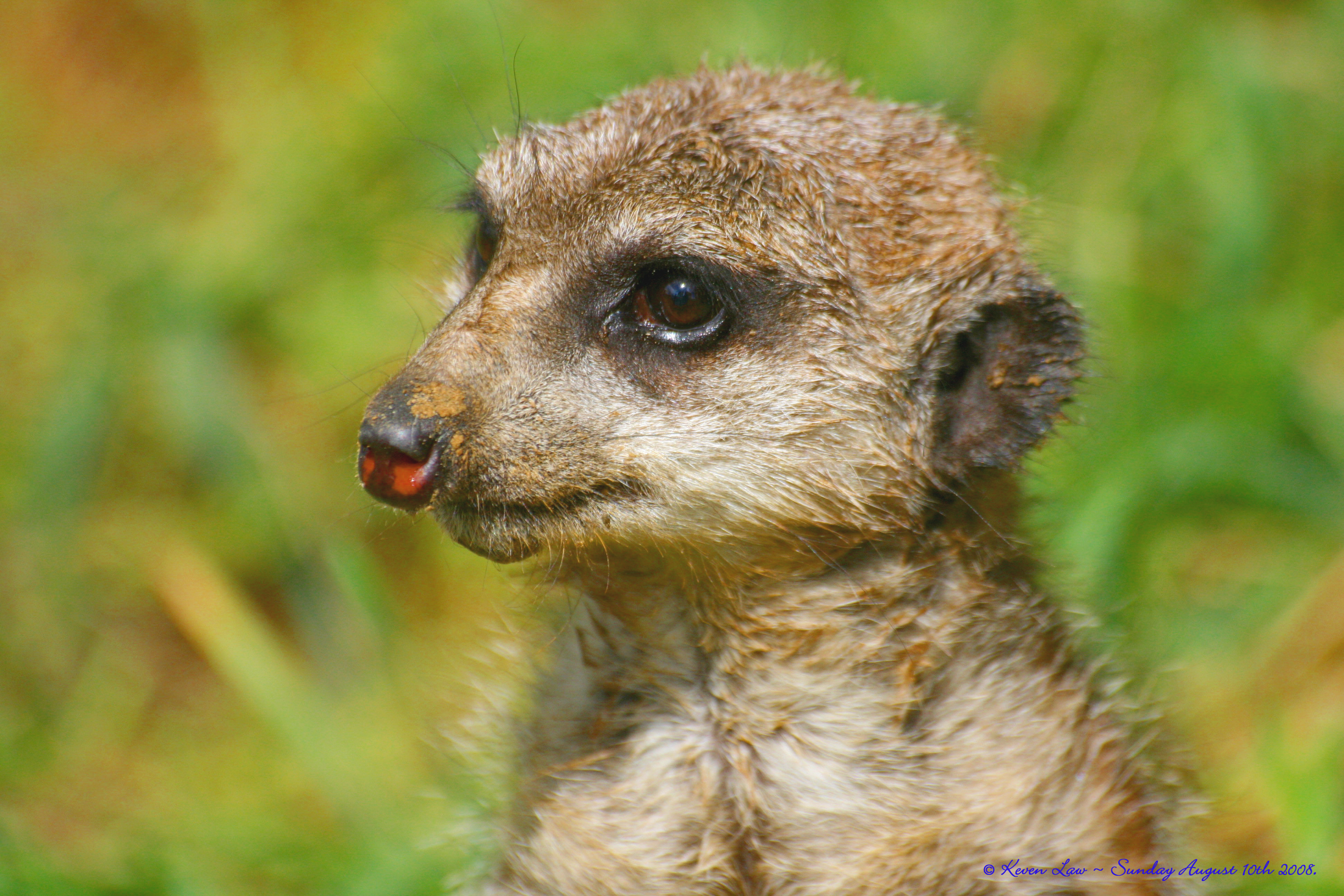 Highest Explore Position #212 ~ On August 23rd 2008. Meerkat - Wingham Wildlife Park, Kent, England - Sunday August 10th 2008. Click here to see the Larger image